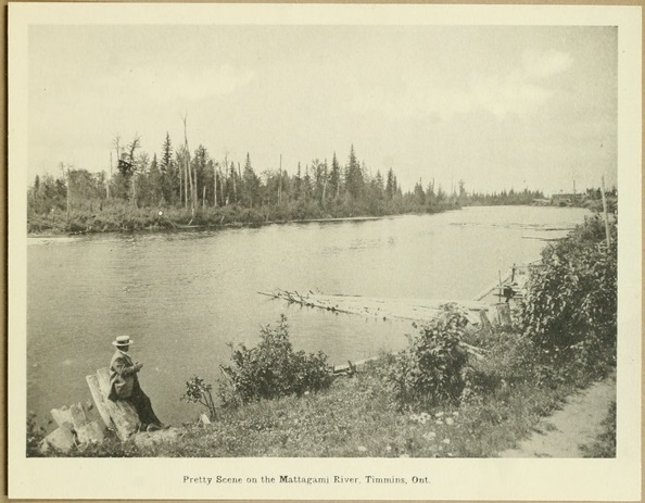 Photograph of Mattagami River, Timmins, Ontario, early 1900s.